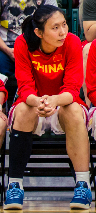 Chen Nan sitting on the bench during the 2016 Edmonton Grads International Classic series